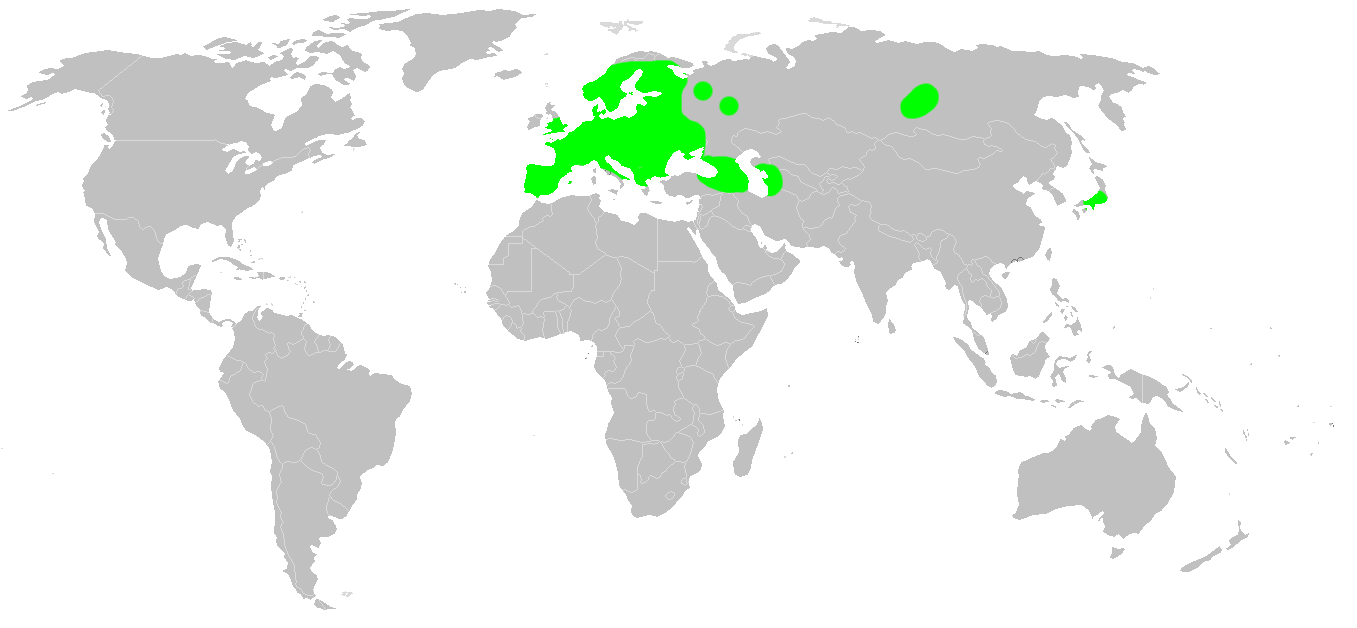 Known worldwide distribution of Diaea dorsata (Thomisidae). After data from British Arachnological Society, 2006.